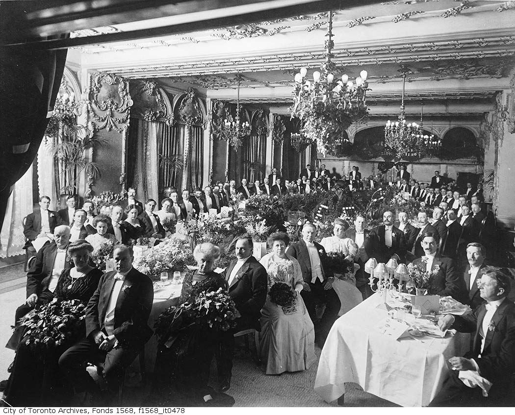 Complimentary dinner tendered by Sir John Eaton, King Edward Hotel. (Related to the golden jubilee of the Eaton's department store chain?) John Craig Eaton is seated at the table to the left, closest to the photographer.